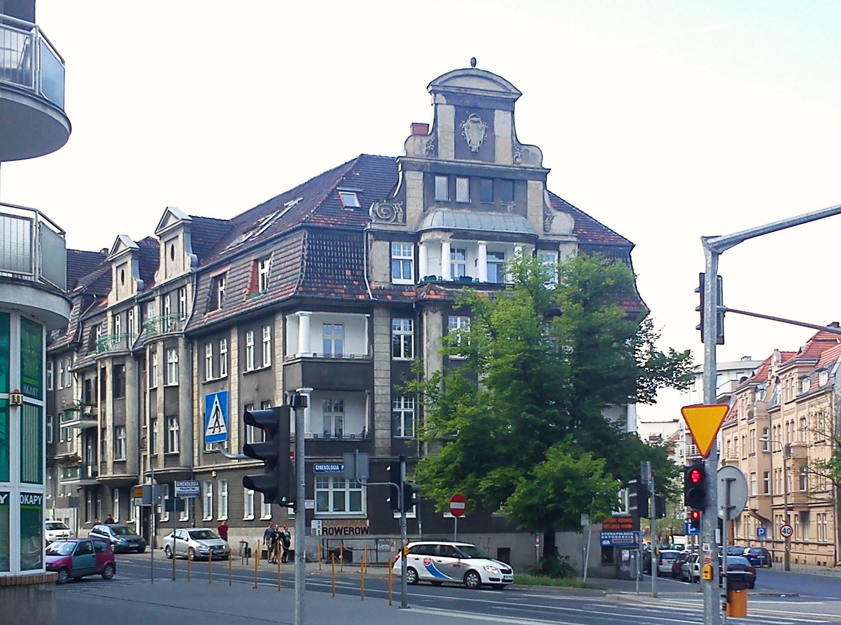 Poznanska/Jezycka Street, Poznan.